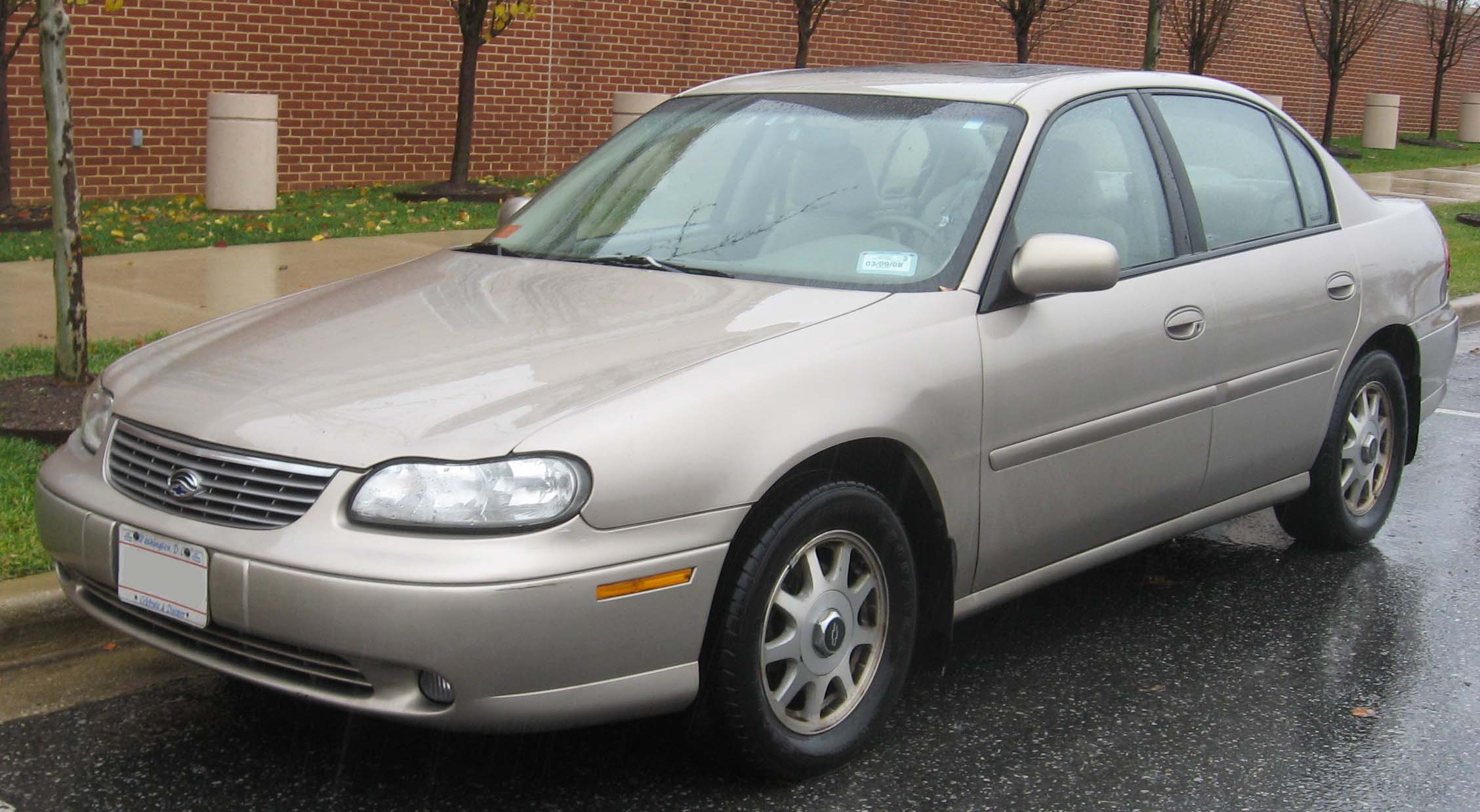 1997-1999 Chevrolet Malibu photographed in College Park, Maryland, USA.